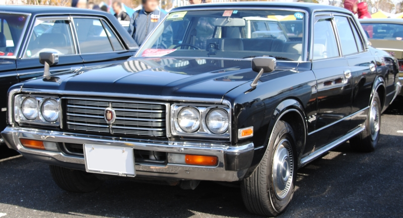 Toyota Crown Super Saloon